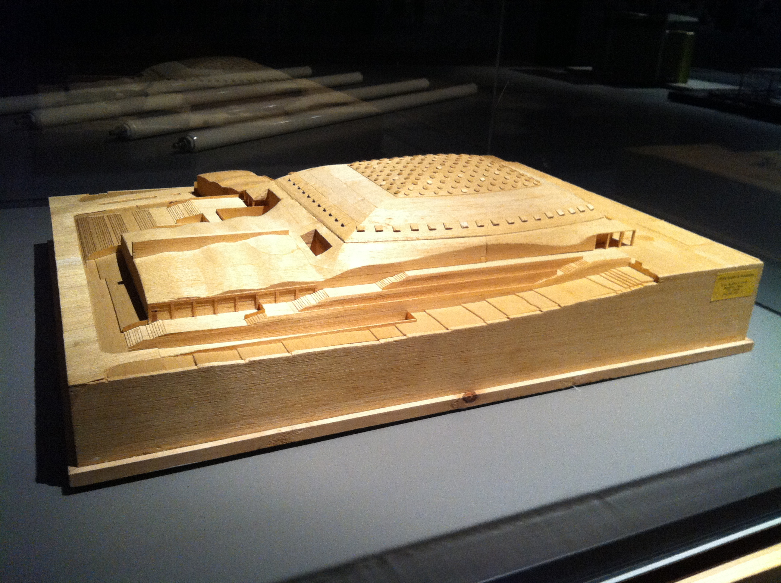 Systems design- The Ulm school. Exhibit at Disseny Hub Barcelona- DHUB Arata Isozaki-Maquesta del Palau Sant Jordi